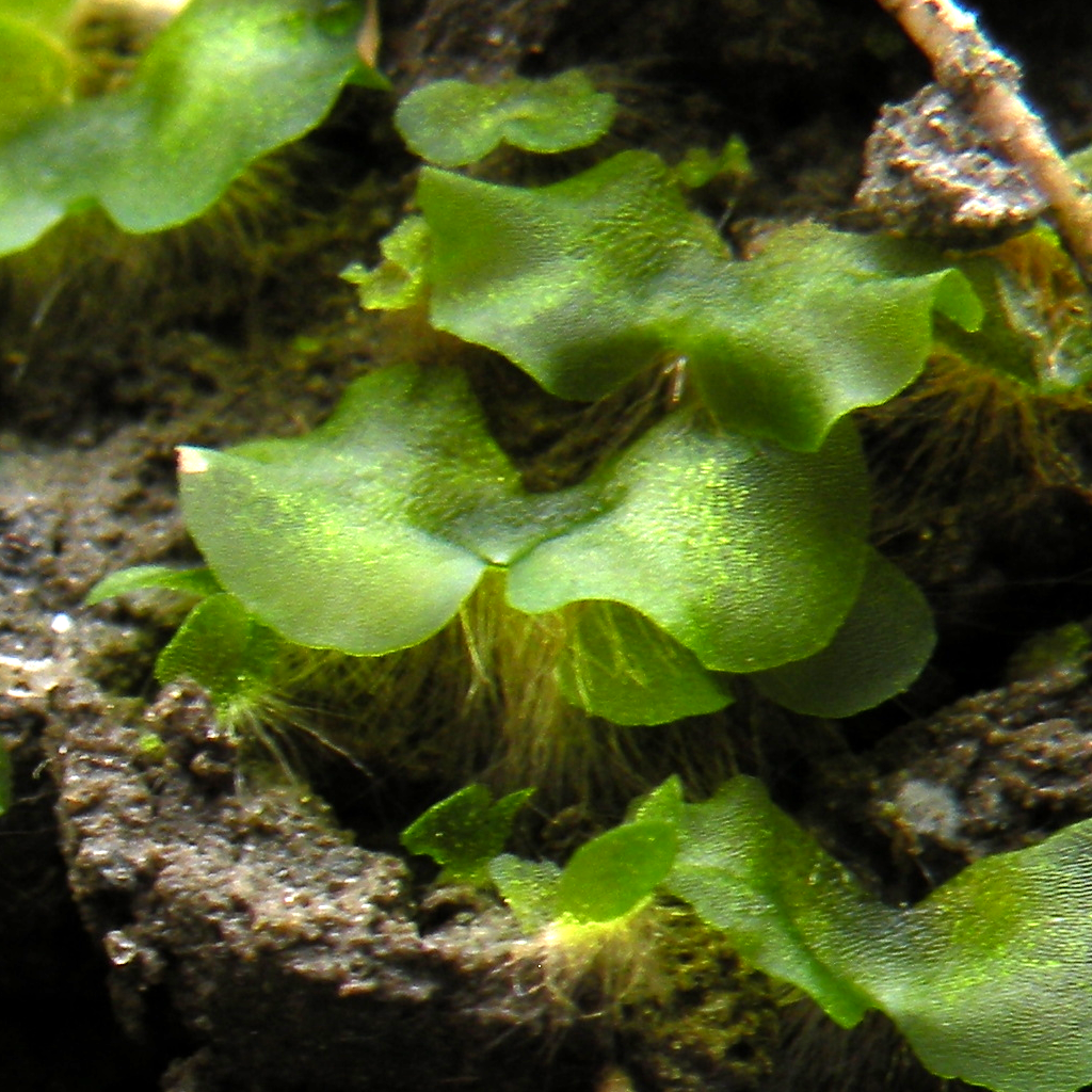 Close-up of several gametophytes (of unknown species) growing in a terrarium. From soil collected in the US state of Vermont.